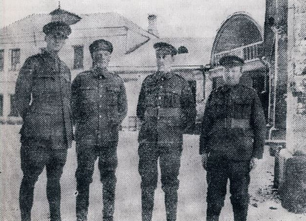 Officers of the Murmansk Legion in 1918-1919, three Finnish revolutionaries and a Canadian officer. From left to right; Aarne Orjatsalo, Hjalmar Lehtimäki, Richard S.P. Burton and Oskari Tokoi.